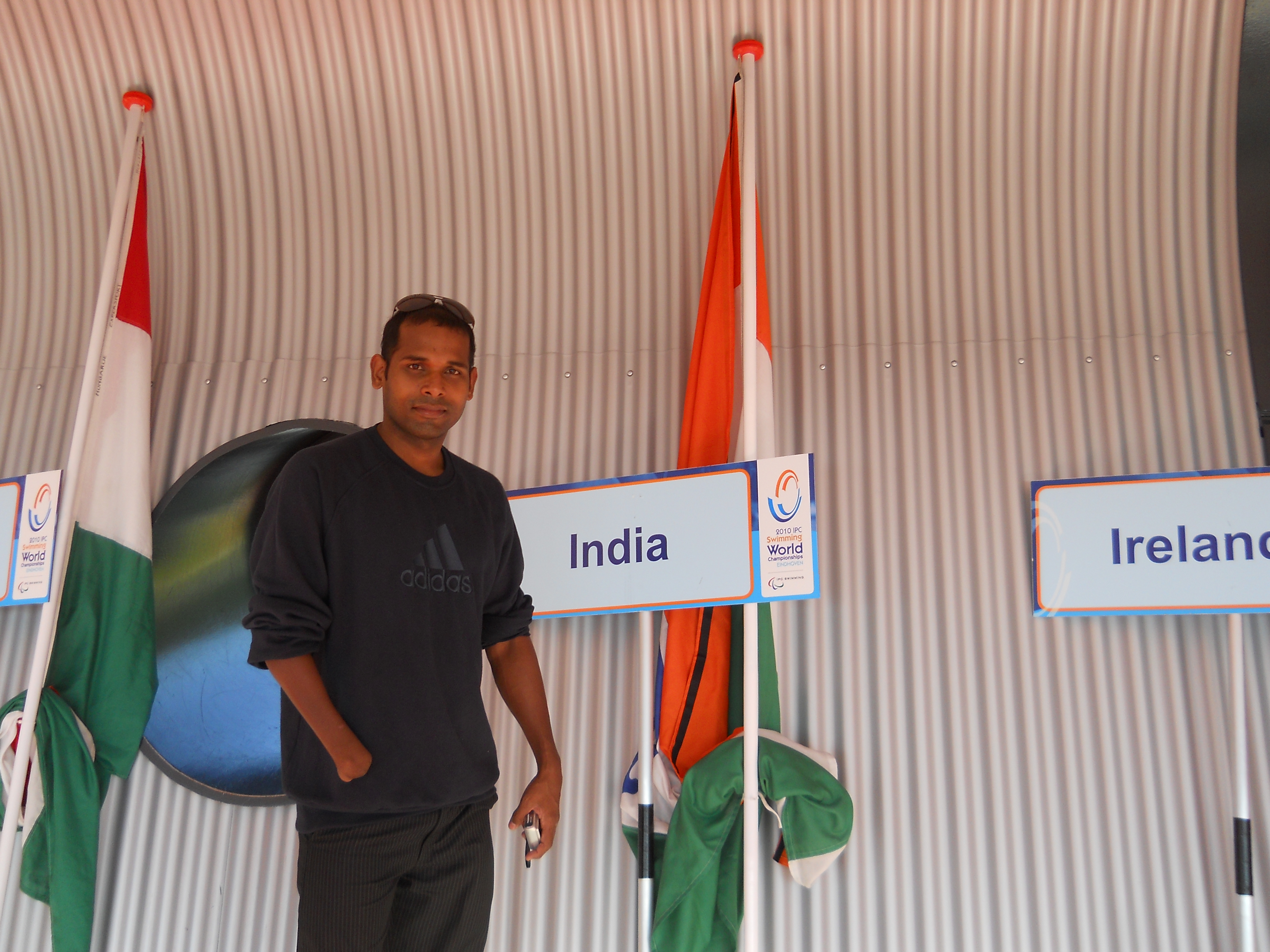 Prasanta at IPC